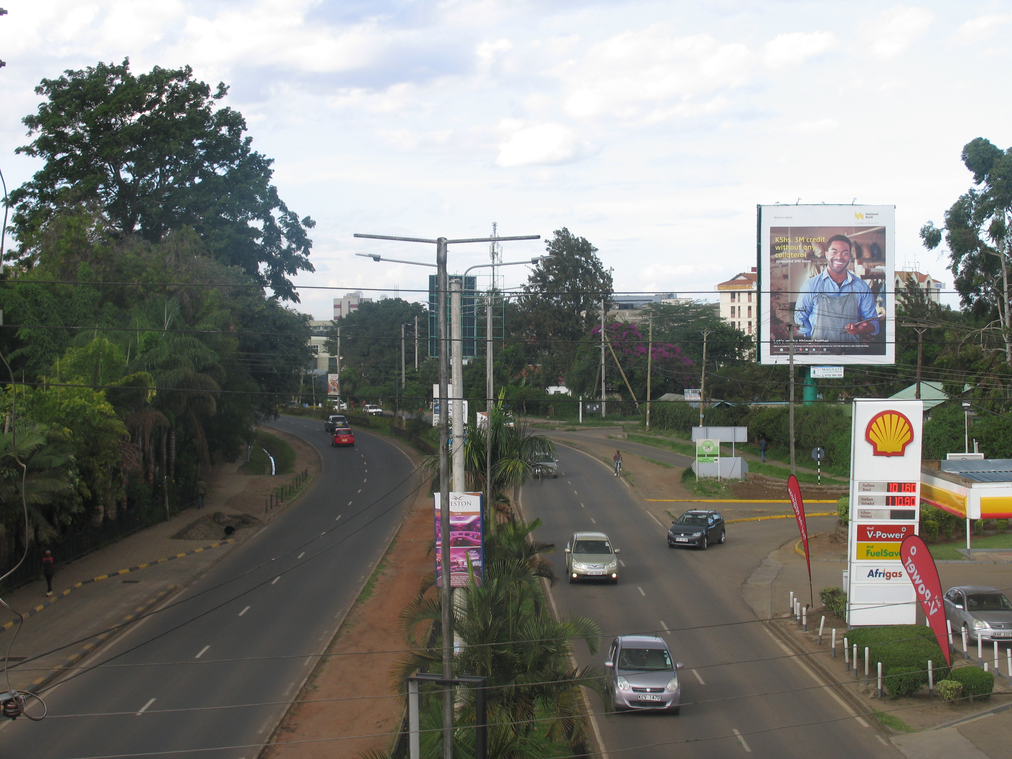 This is an image with the theme "Africa on the Move or Transport" from: Kenya